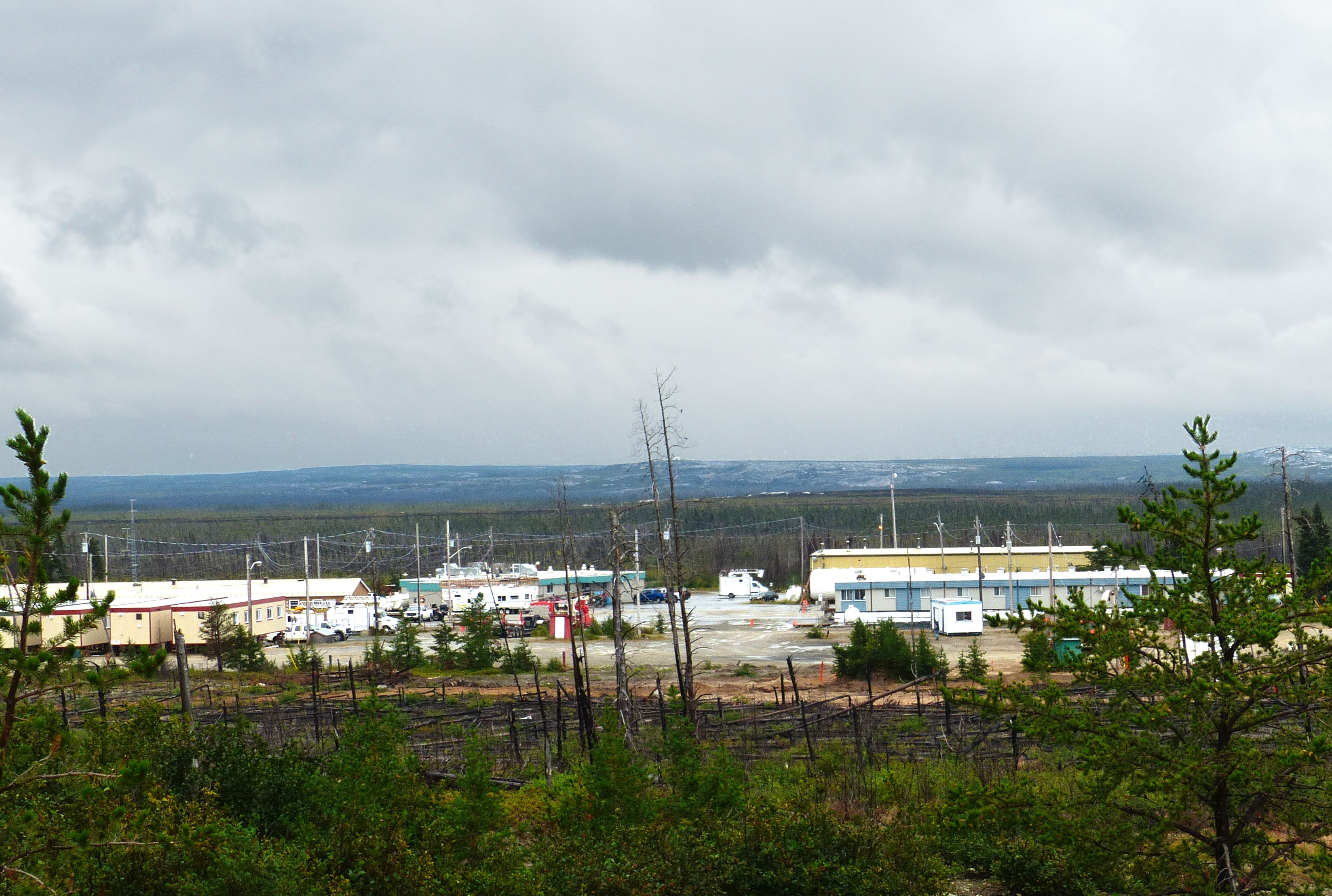 The supply station, or "relais routier" at Kilometre 381 on the James Bay Road in August of 2015. The building on the left is the dormitory, in the centre is the cafeteria, and on the right is the maintenance building. The fuel pumps are behind the cafeteria out of the prevailing winds. In August 2015 the price of fuel was $1.42 CDN/litre. The view is to the south and the road itself is out of frame on the right.